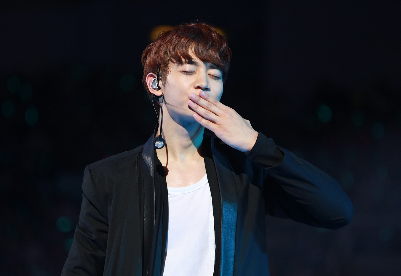 Minho at the SHINee World Concert III in Taiwan on May 11, 2014.